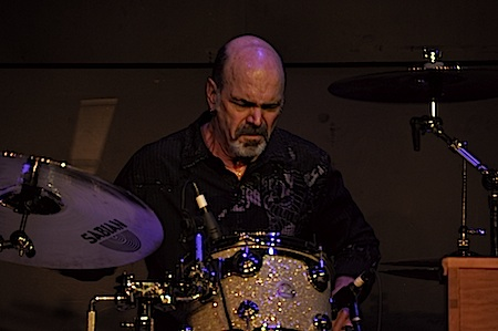 Danny Seraphine (of Chicago - Live in Concert (photo by Scott Dudelson